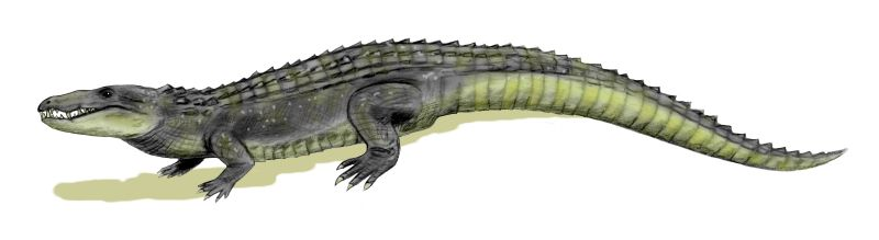 Mahajangasuchus insignis, a extinct crocodile from the Late Cretaceous of Madagascar, after Buckley (2001), pencil drawing